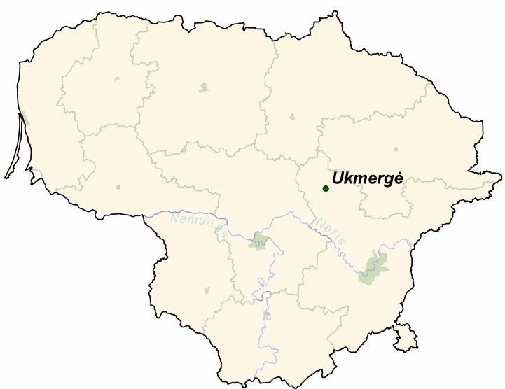 Ukmergė on the map of Lithuania